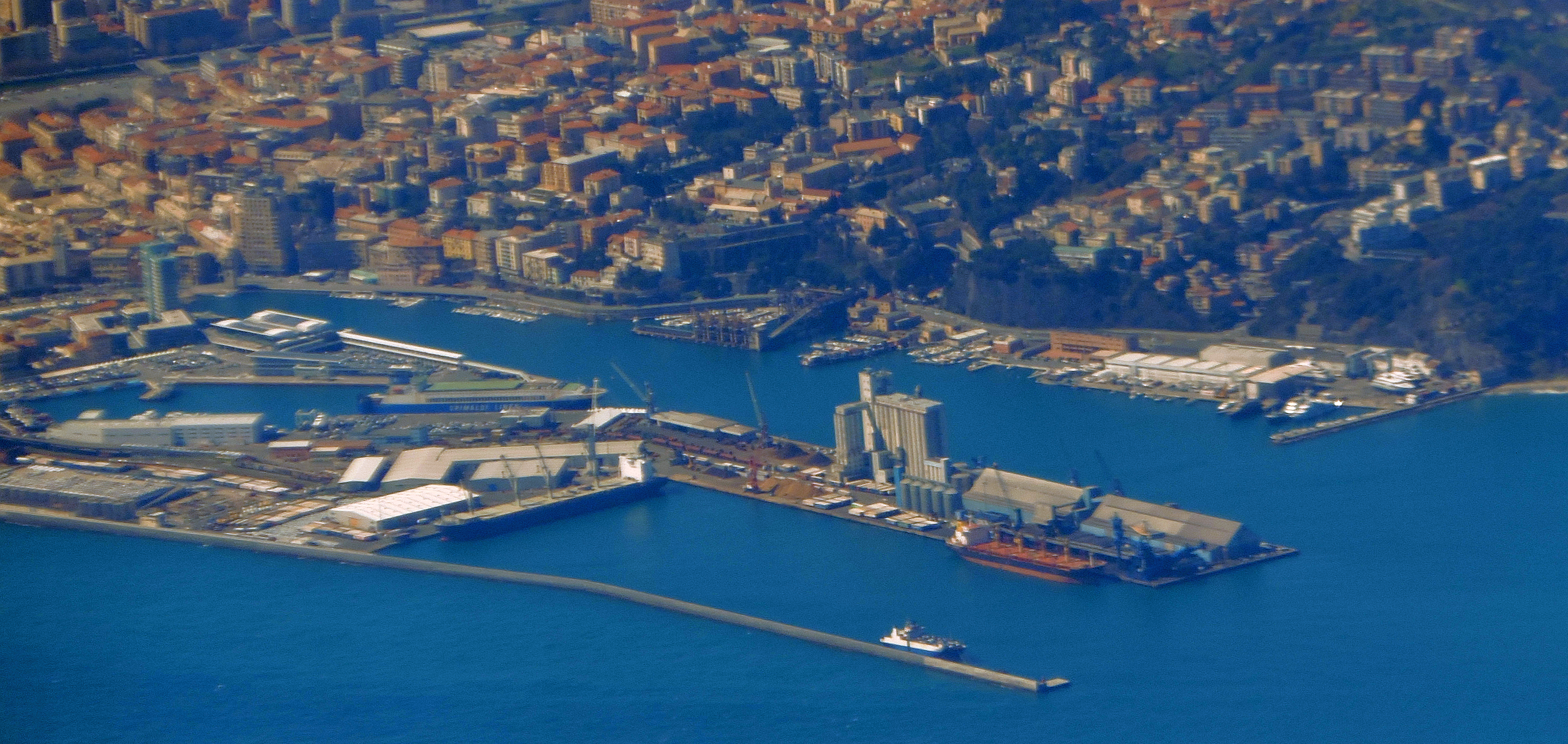 Harbour of Savona (Liguria, Italy): aerial view